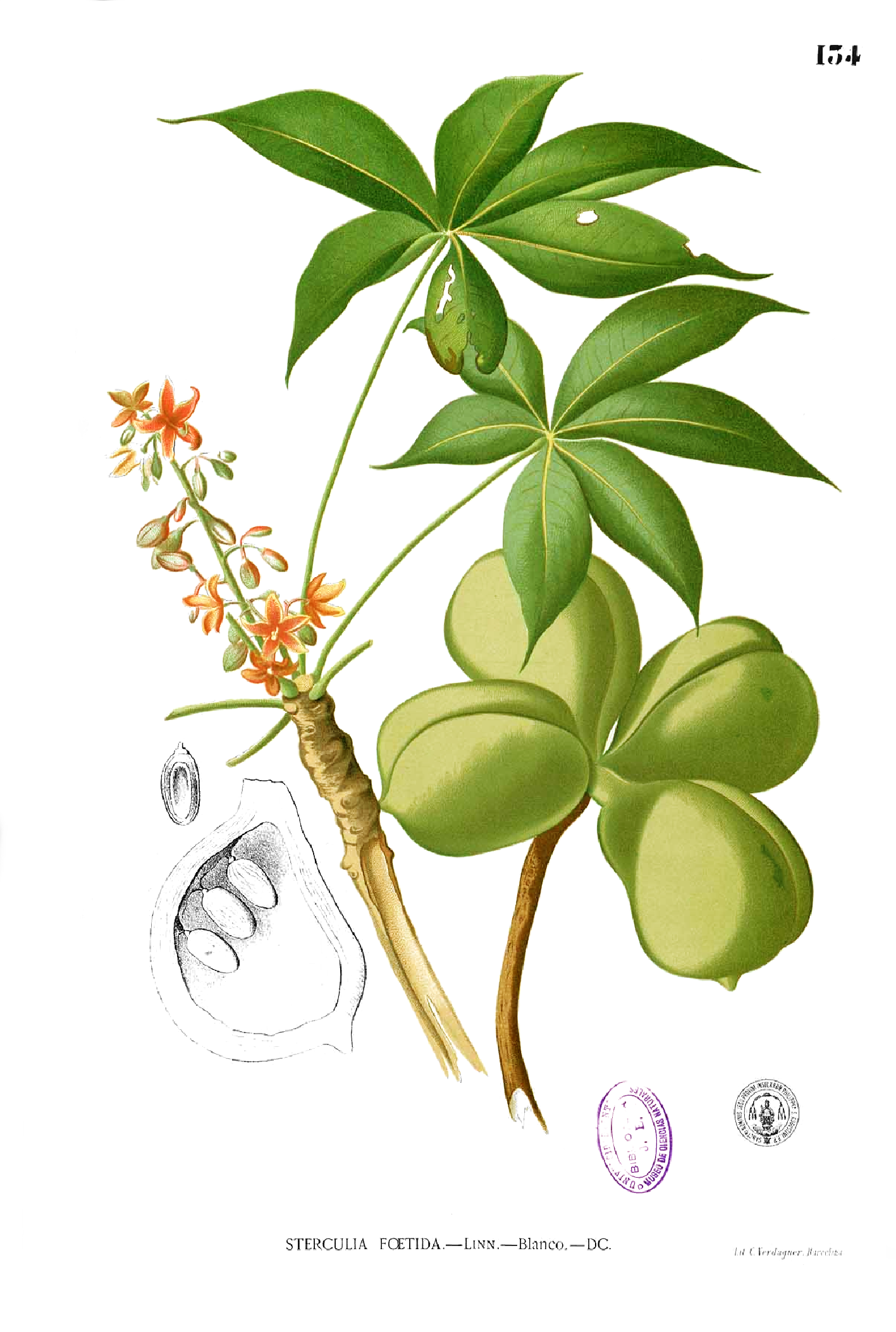 Plate from book